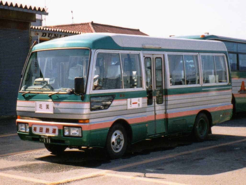 Arida Railway Bus, Wakayama, 1996. Photograph taken by Cassiopeia sweet. Originally uploaded to Japanese Wikipedia by the photographer.